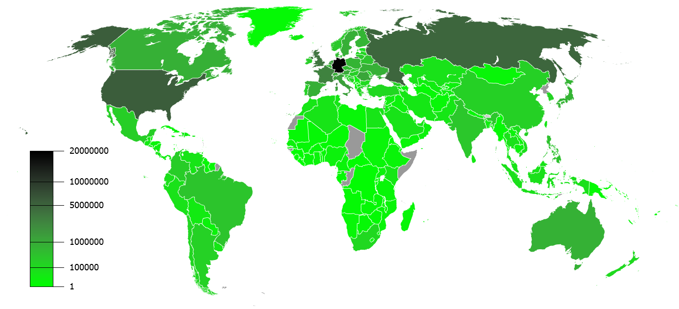 usage stats for February 2011